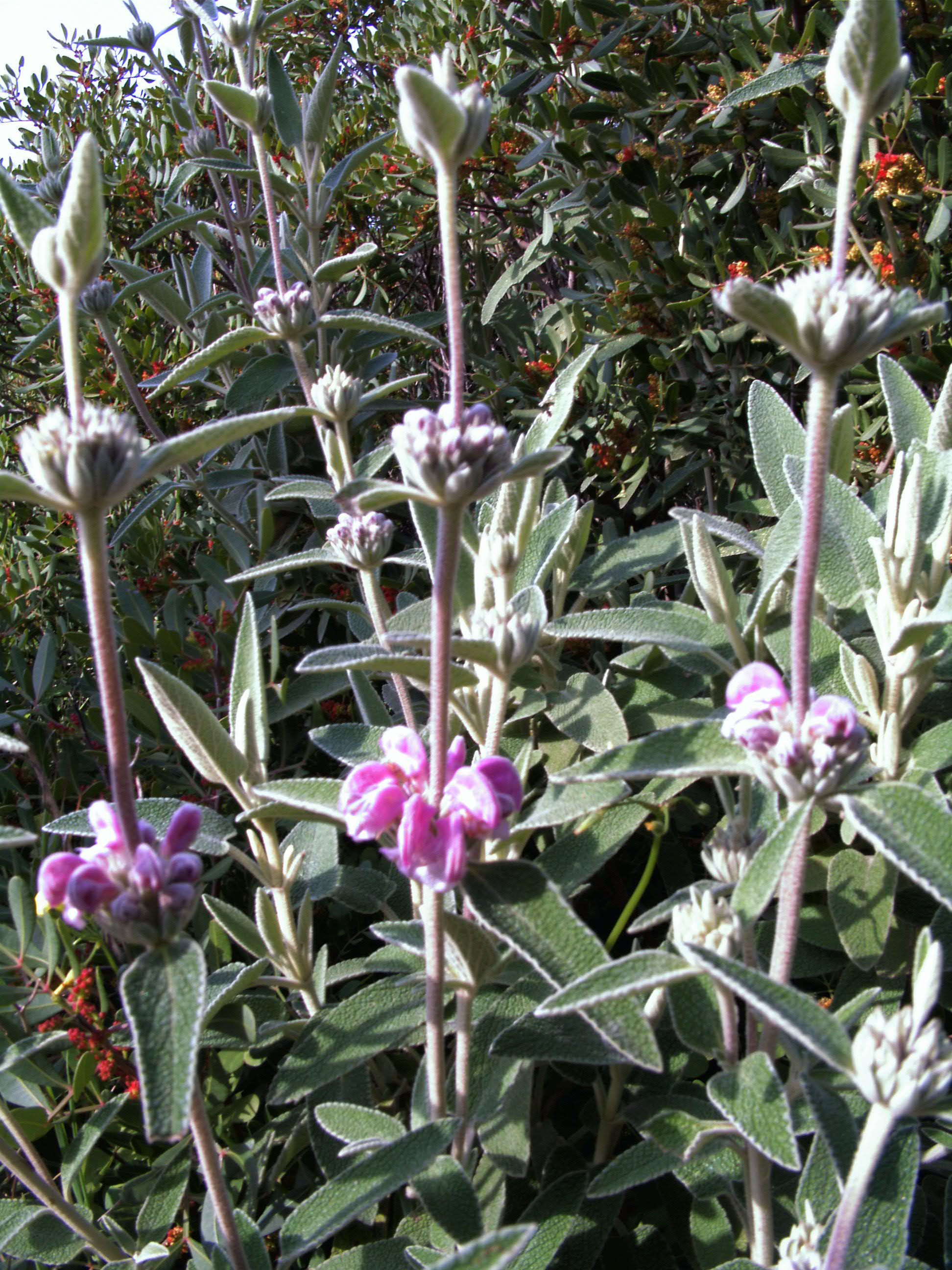 Name Phlomis purpurea Family Lamiaceae